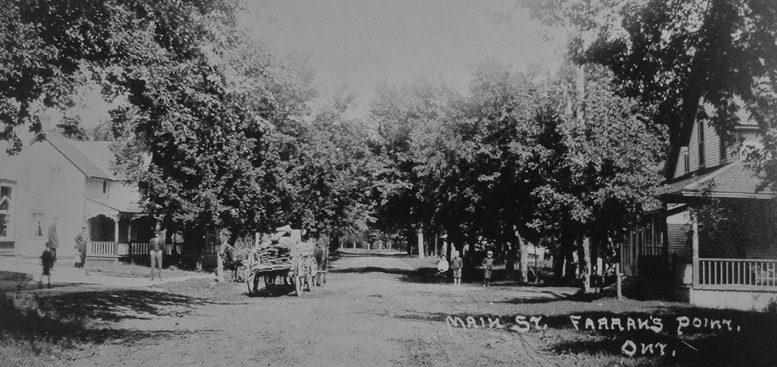 This image depicts the main street of the former village of Farran's Point, Ontario taken sometime in the year 1914